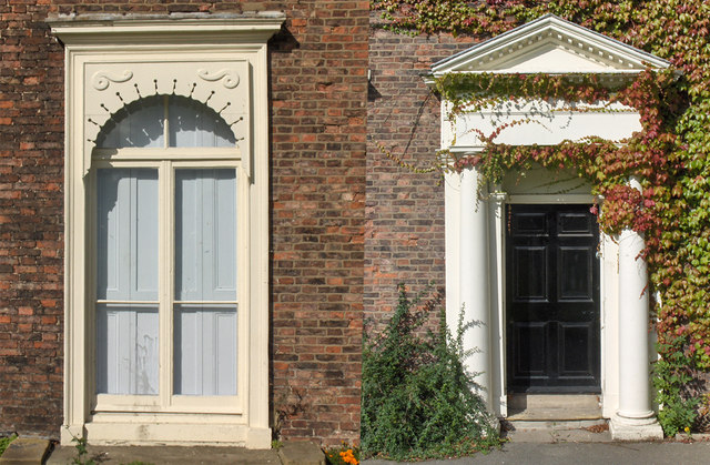 Baysgarth House. Picture shows detail of a ground floor window and the front doorway. Not to the identical scale. See 230432 for a view of the complete frontage.